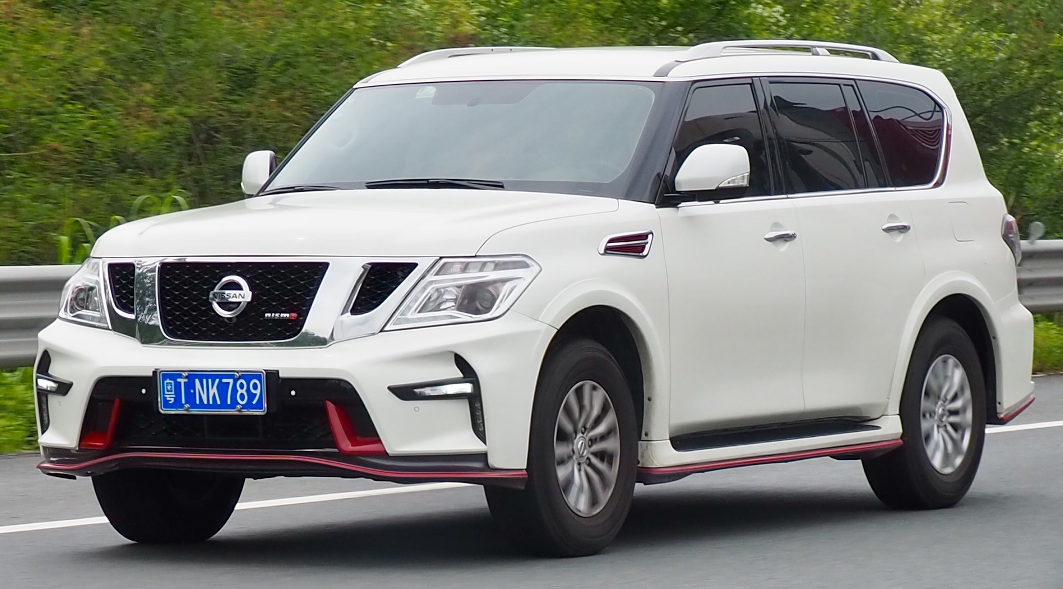 A 2018 Nissan Patrol Nismo photographed in Jiangmen, Guangdong province, China.